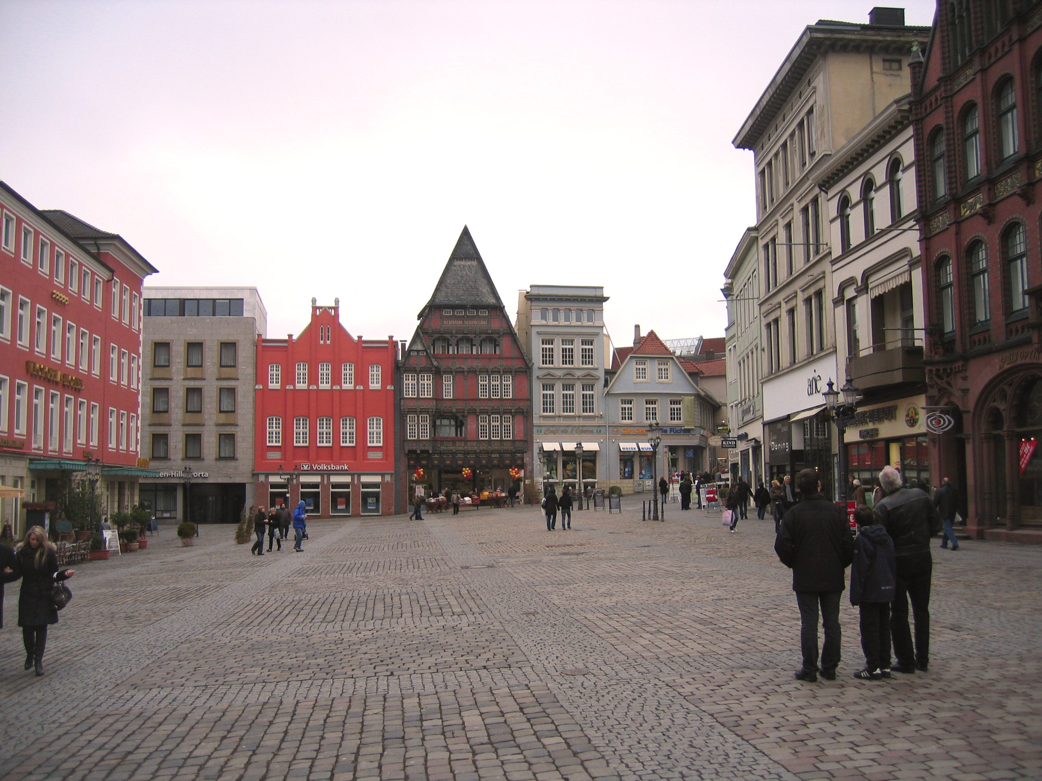 Market square in Minden, Minden-Lübbecke, North Rhine-Westphalia, Germany.